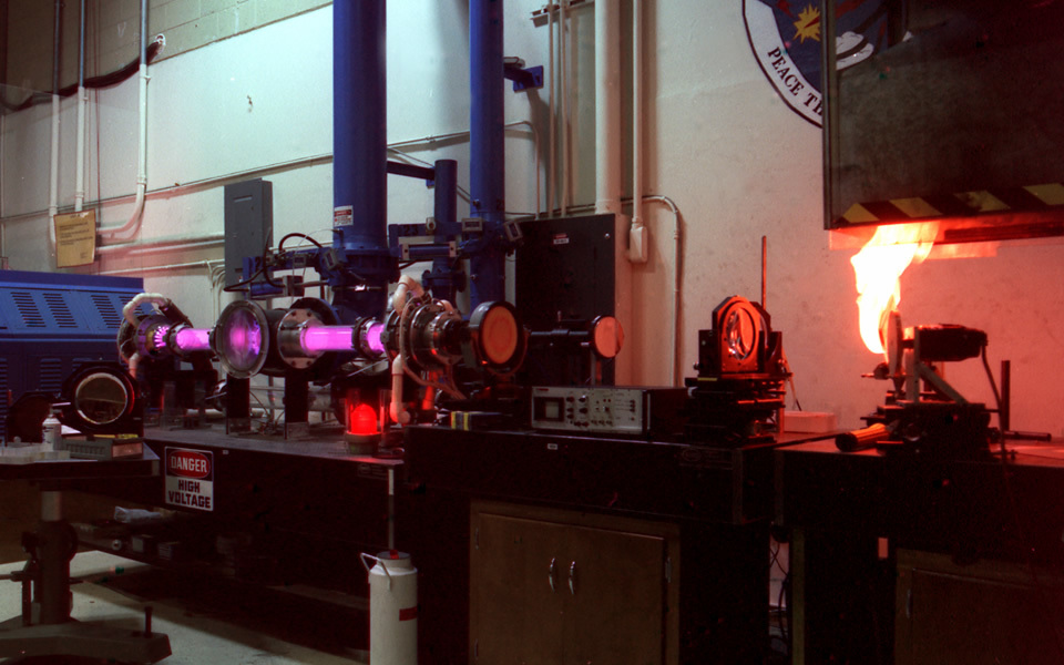 continuous wave 50,000 watt carbon dioxide electric discharge coaxial laser [1]. Original caption: "A sergeant operates a 15,000-watt laser. This laser is one of several that are used to evaluate the effects